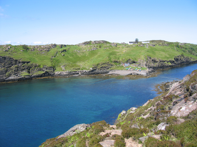 Caol Fladda from below Creag an Eoin towards Eilean Fladday